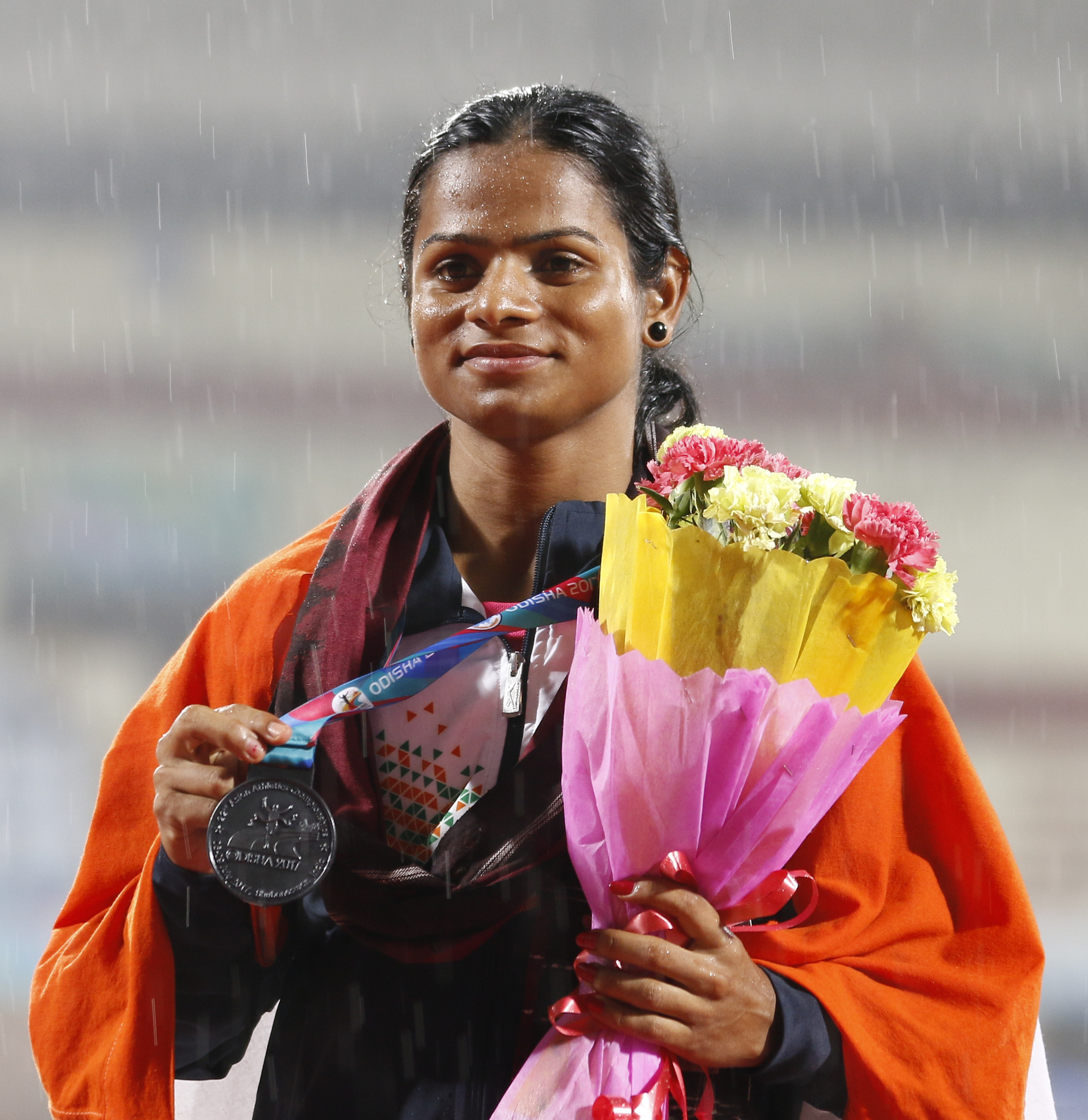 Dutee Chand won the bronze medal in 22nd Asian Athletics Championships in Bhubaneswar.